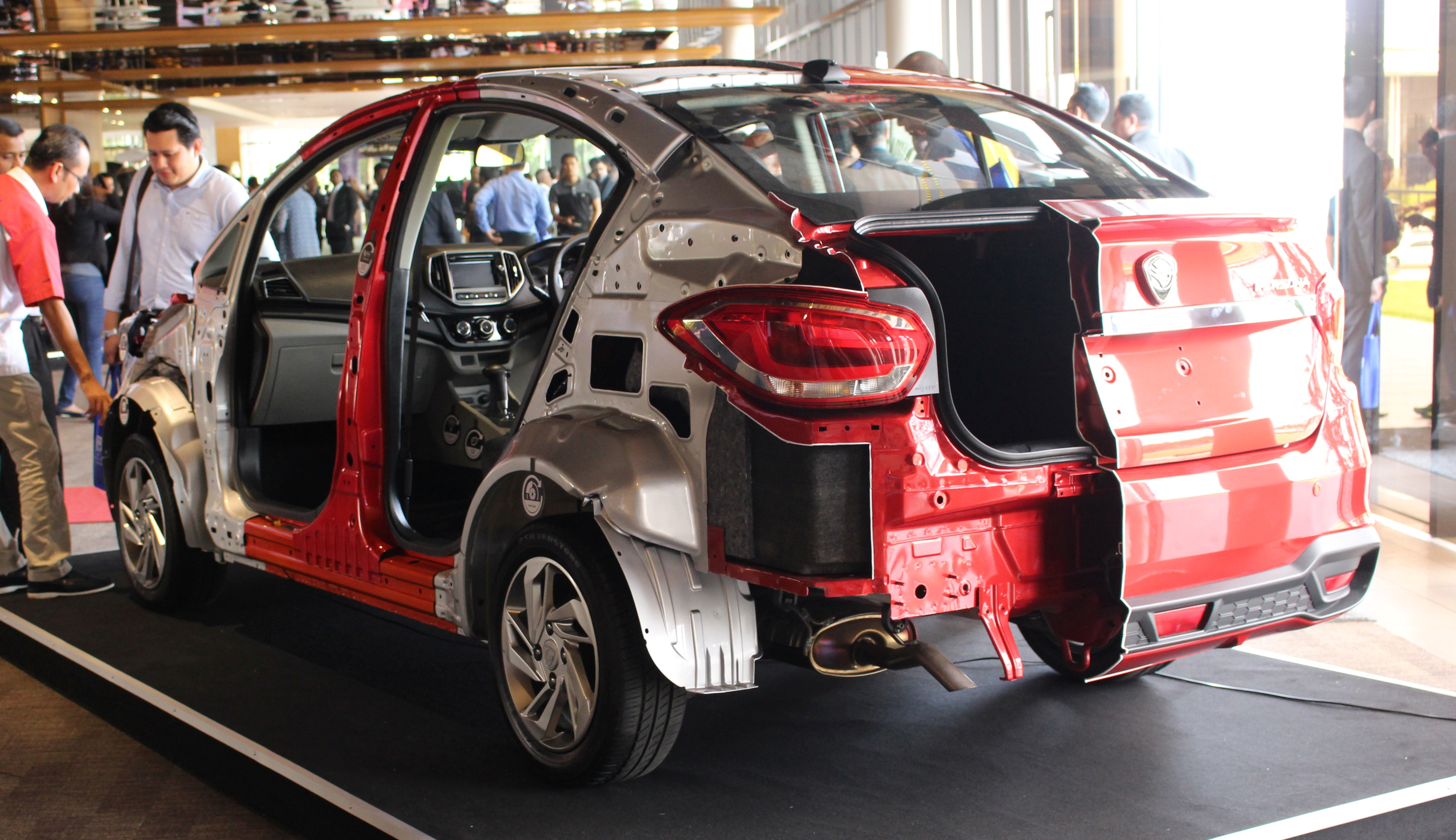 Proton's new 'affordable safety' USP first started in 2013, but in a few short years, their efforts have paid off handsomely. Safety has become one of their strongest playing cards now... and to think, just a few years back, many Proton cars didn't even come with a driver's airbag or ABS ! Even now in 2016, few car models have electronic stability control (ESC) as standard in Malaysia, and if so, they're usually limited to larger models or more premium brands. In other words, safety is a luxury in Malaysia, not a right (as currently observed in Western Europe, Japan, America, Canada and Australia). Proton has been trying their best to change this though, and unlike their 'nemesis' Perodua (who could care less about safety, frankly speaking), Proton has been pushing for more and more safety features in their models. The new BH Persona has ESC as standard, and eight super-strong hot pressed (HPF) components, just like the Iriz. Unfortunately, airbag count in the base and mid range models stand at just two, but the range topping model gets six. But the fact that ESC comes standard is already a major leap forward, as many of its competitors (City, Vios, Almera etc.) do not get standardised ESC. Heck, even the base model Camry doesn't have ESC, nor any side or curtain airbags. Such is the context here.